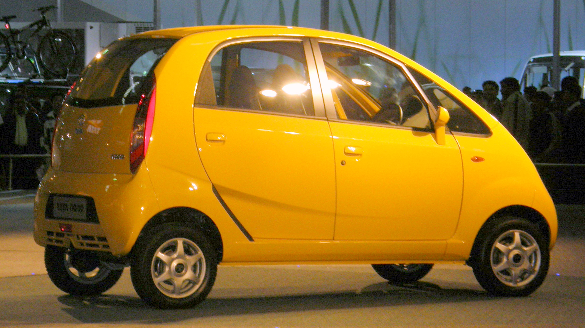 Tata Nano displayed at an auto expo